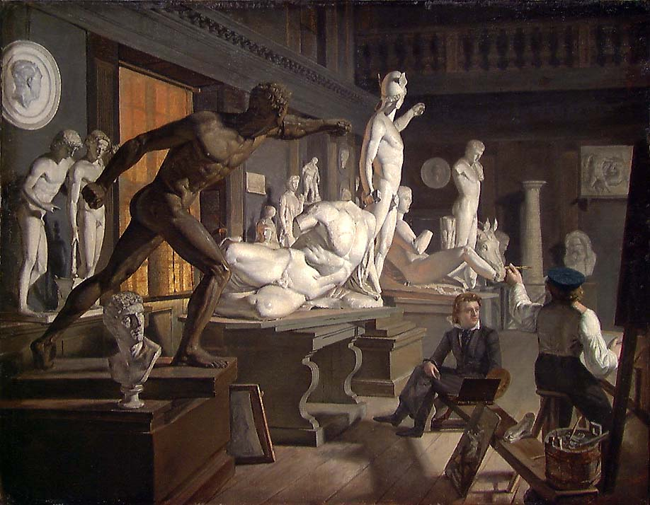 Scene from the Academy in Copenhagenlabel QS:Len,"Scene from the Academy in Copenhagen"